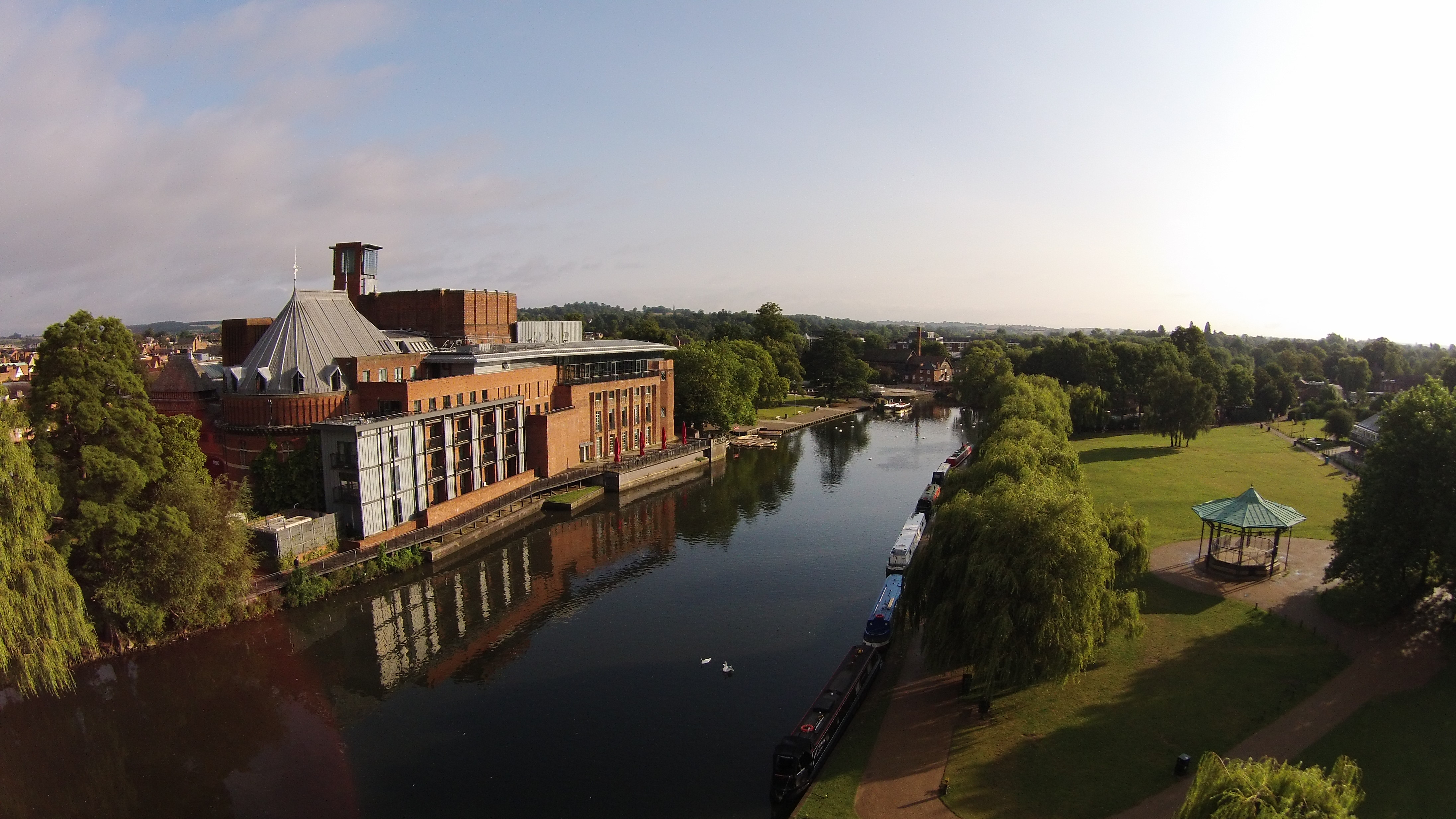 MUSEUM SHAKESPEARE MEMORIAL THEATRE SWAN THEATRE Wikidata has entry Q17551384 with data related to this building.